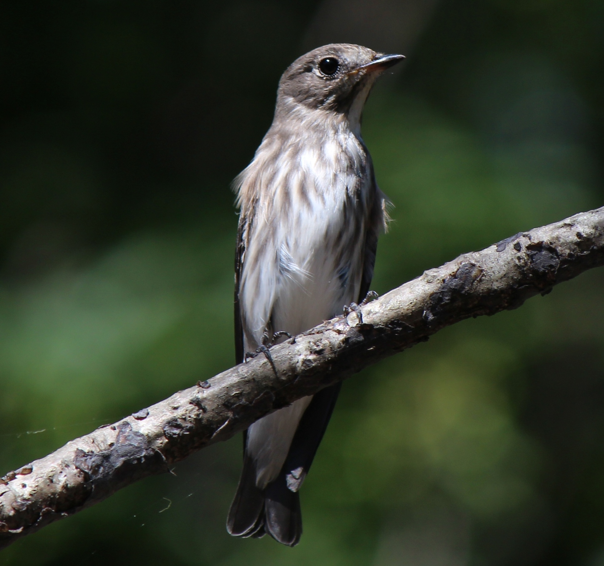 Muscicapa griseisticta (Grey-streaked Flycatcher), in Japan